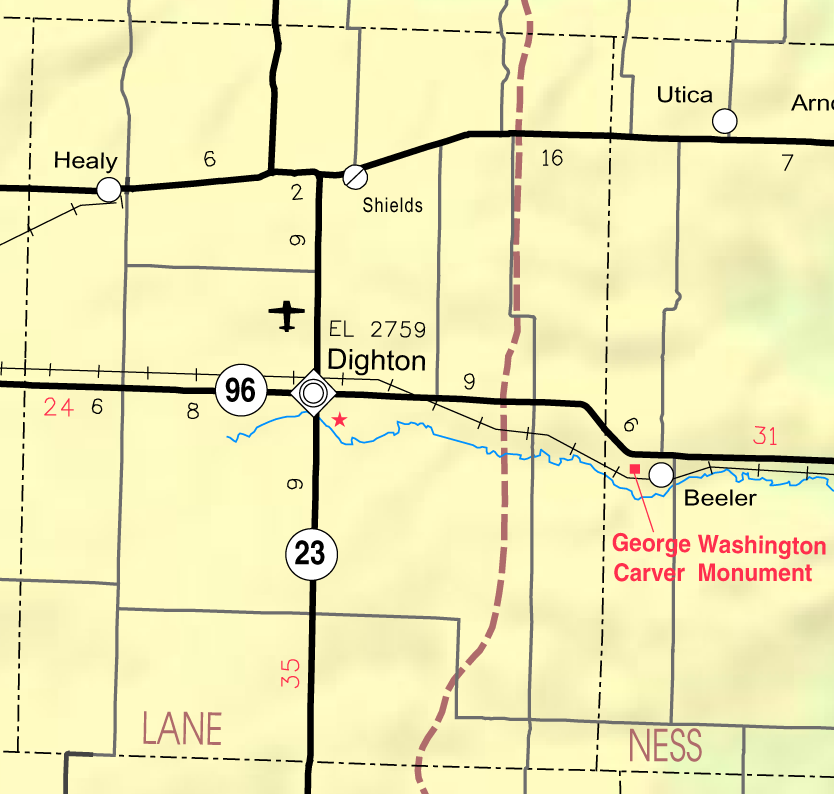 This map of Lane County, Kansas, USA, is copied at a resolution of 300 pixels/inch from the original PDF file.